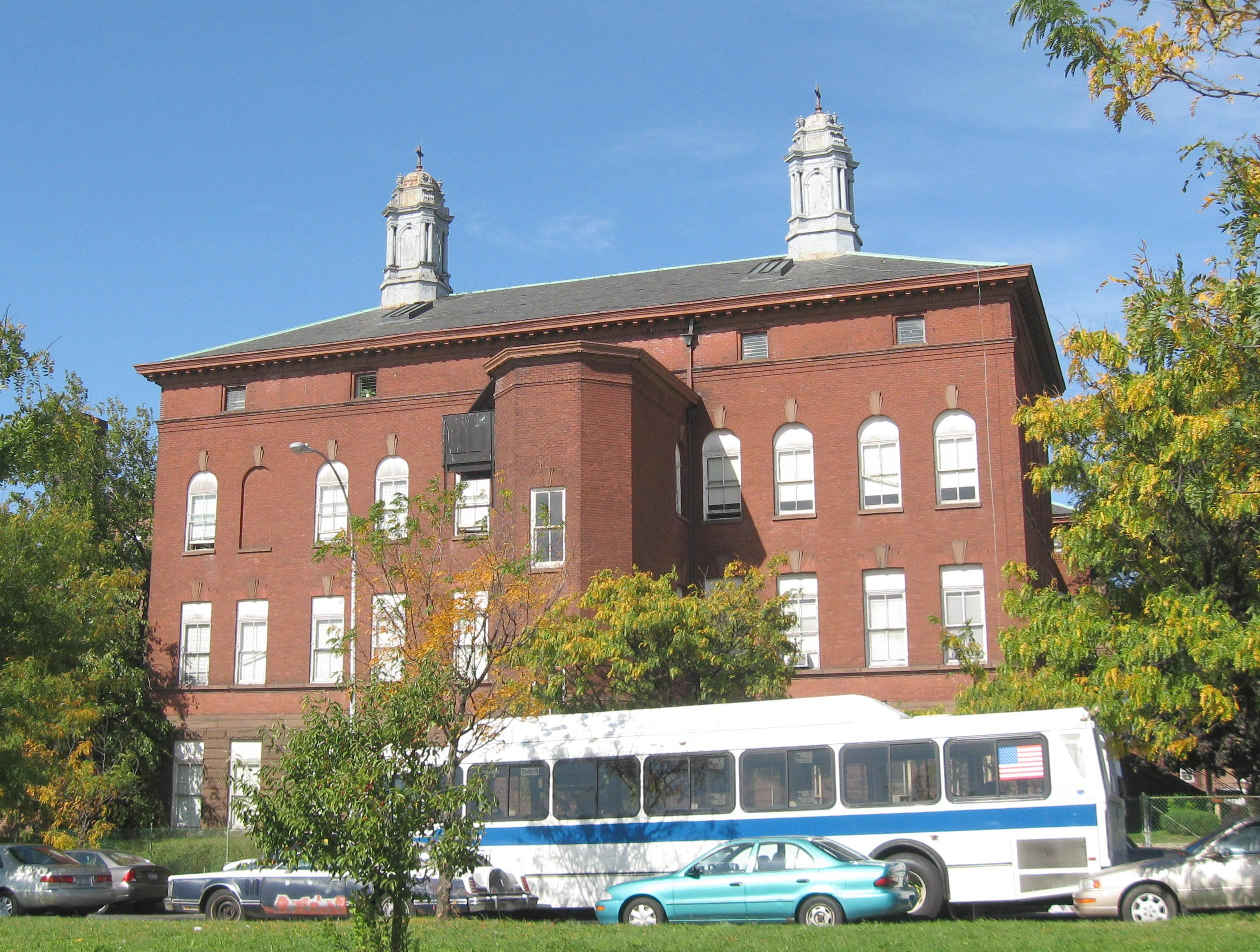 Looking northwest at Monsignor Scanlan High School, east of Brush Avenue, on a sunny late morning